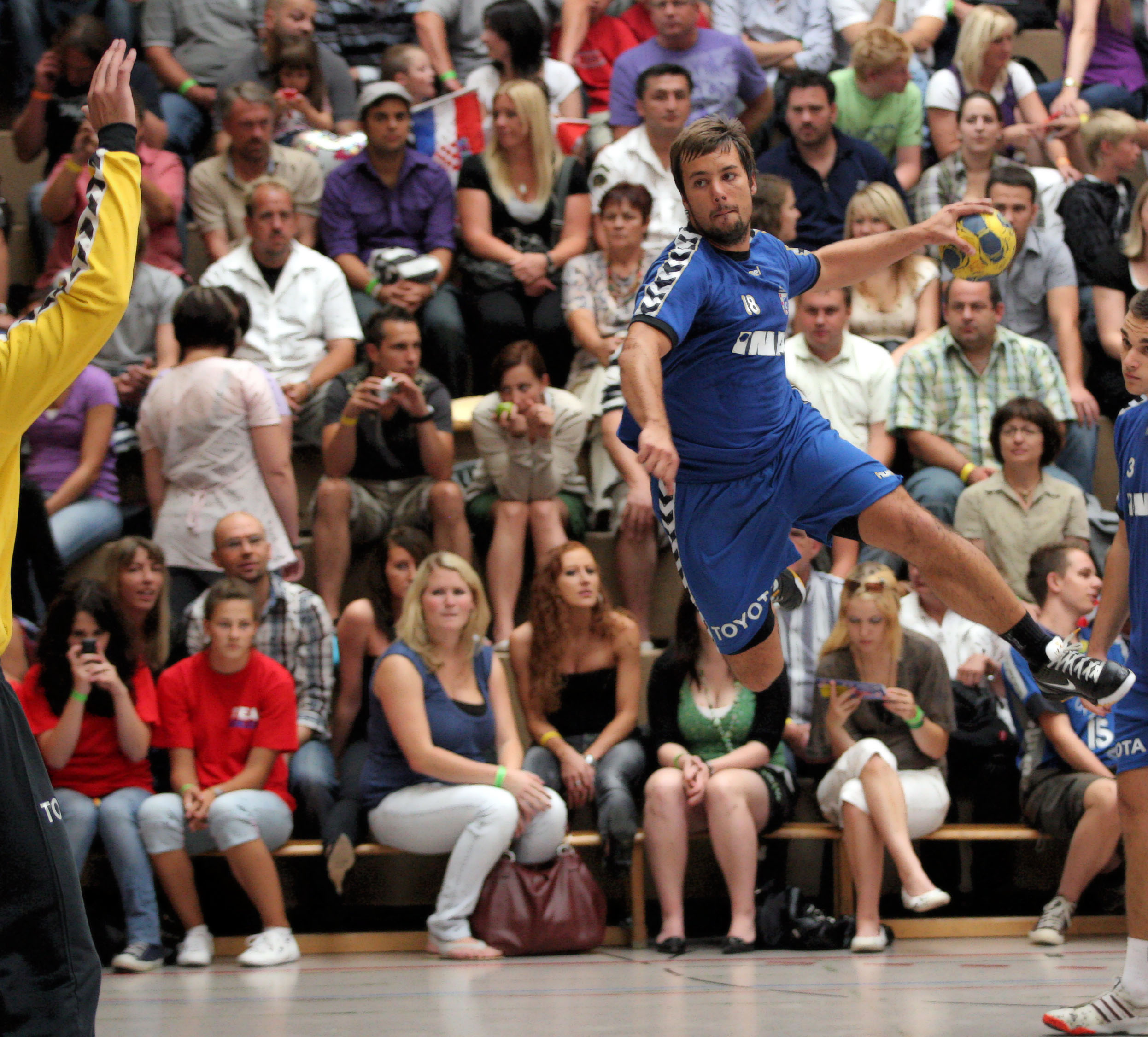 Zlatkov Horvat, Croatian handball player, playing for RK Zagreb, on August 22nd, 2009 in Ehingen (Germany), during the Schlecker Cup 2009.